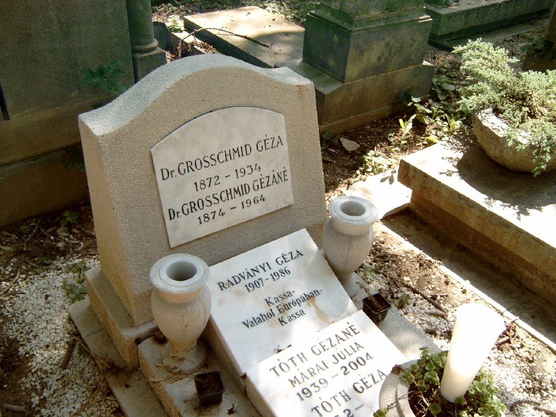 Grave of Géza von Radványi in Budapest, Farkasréti Cemetery